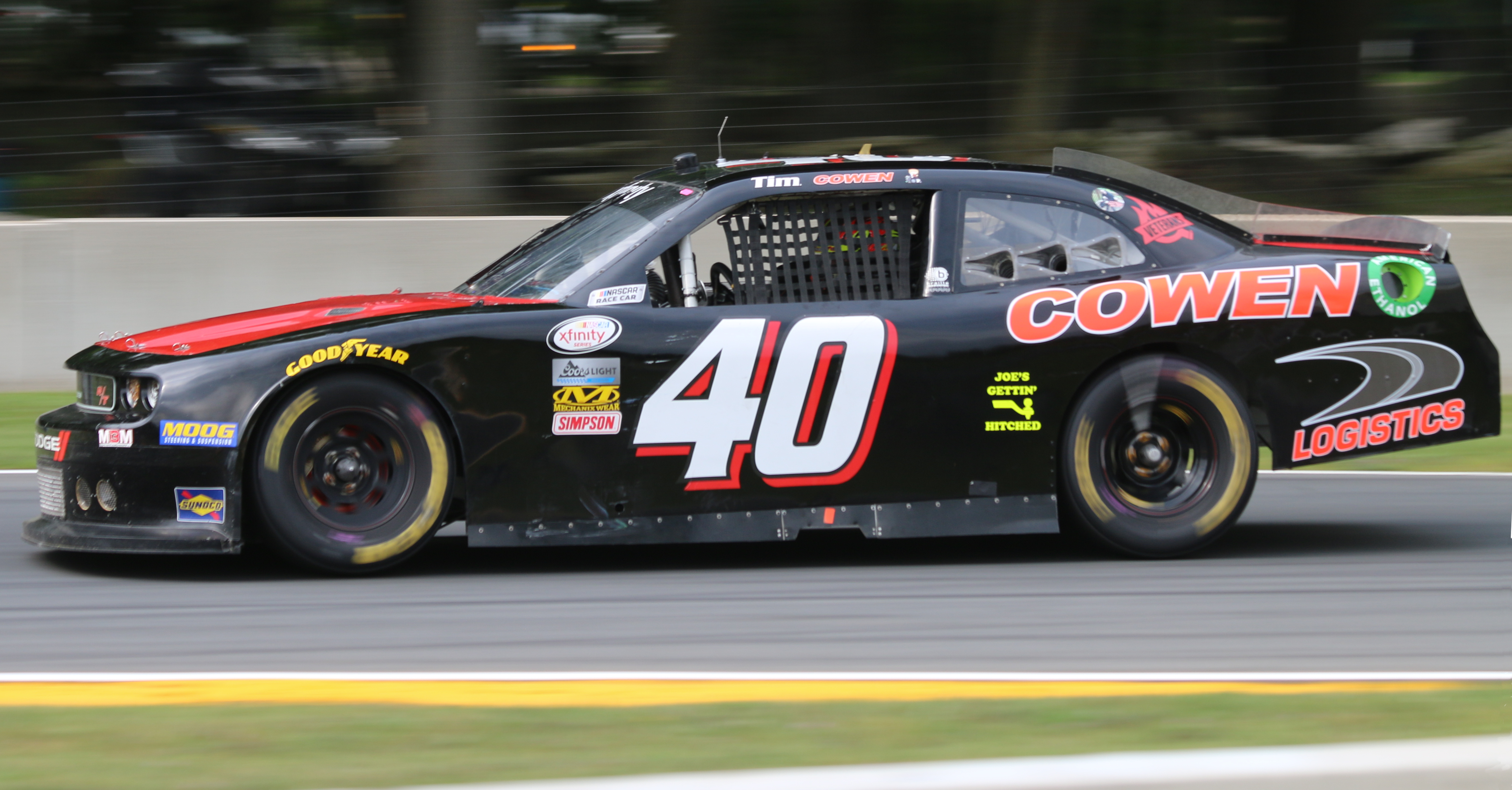 The Dodge Charger of Tim Cowen at the NASCAR Xfinity Series Johnsonville 180.